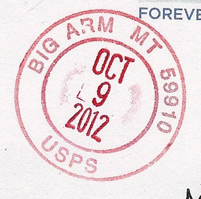 Big Arm Montanna Postmark